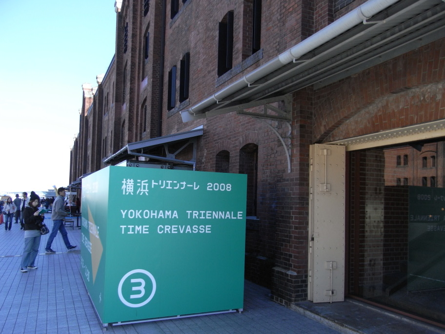 Yokohama Triennale 2008, Red Brick Warehouse venue